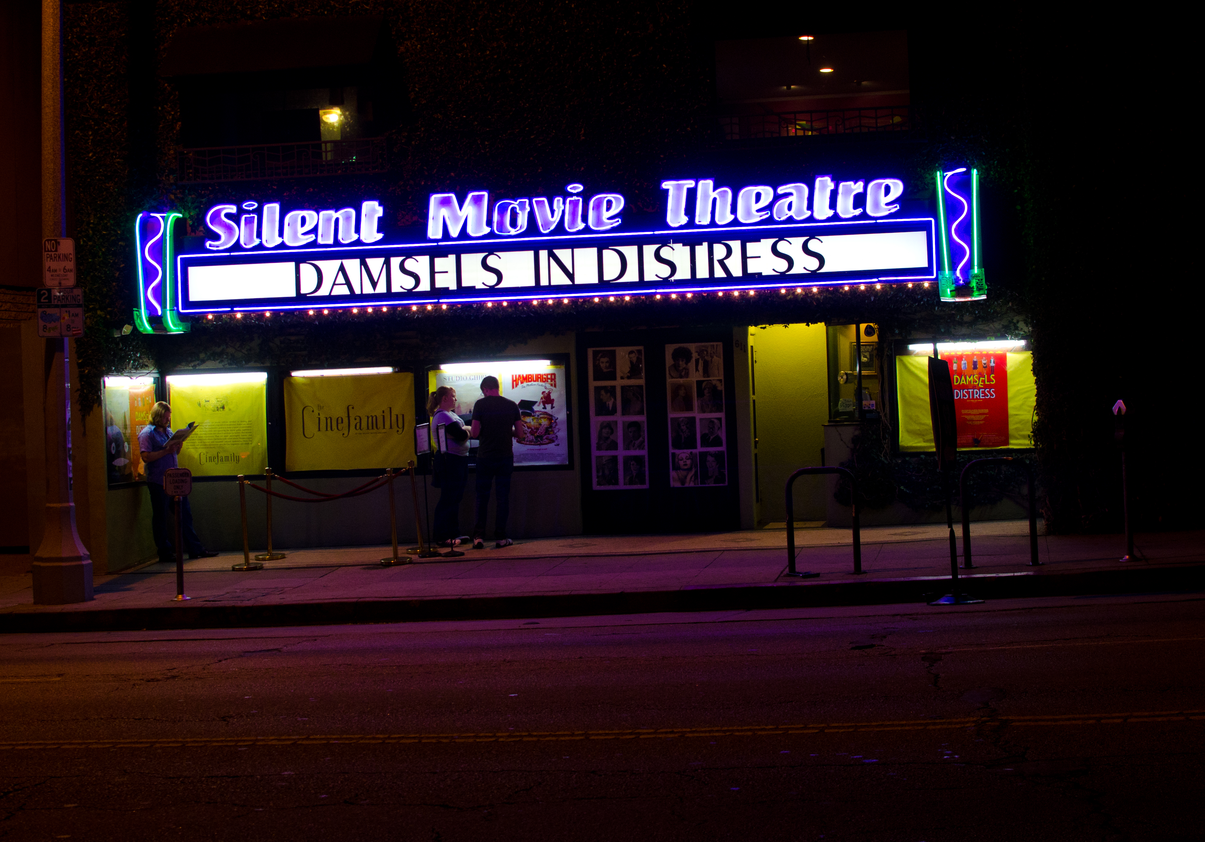 Cinefamily at The Silent Movie Theater. Fairfax District, Los Angeles, California.